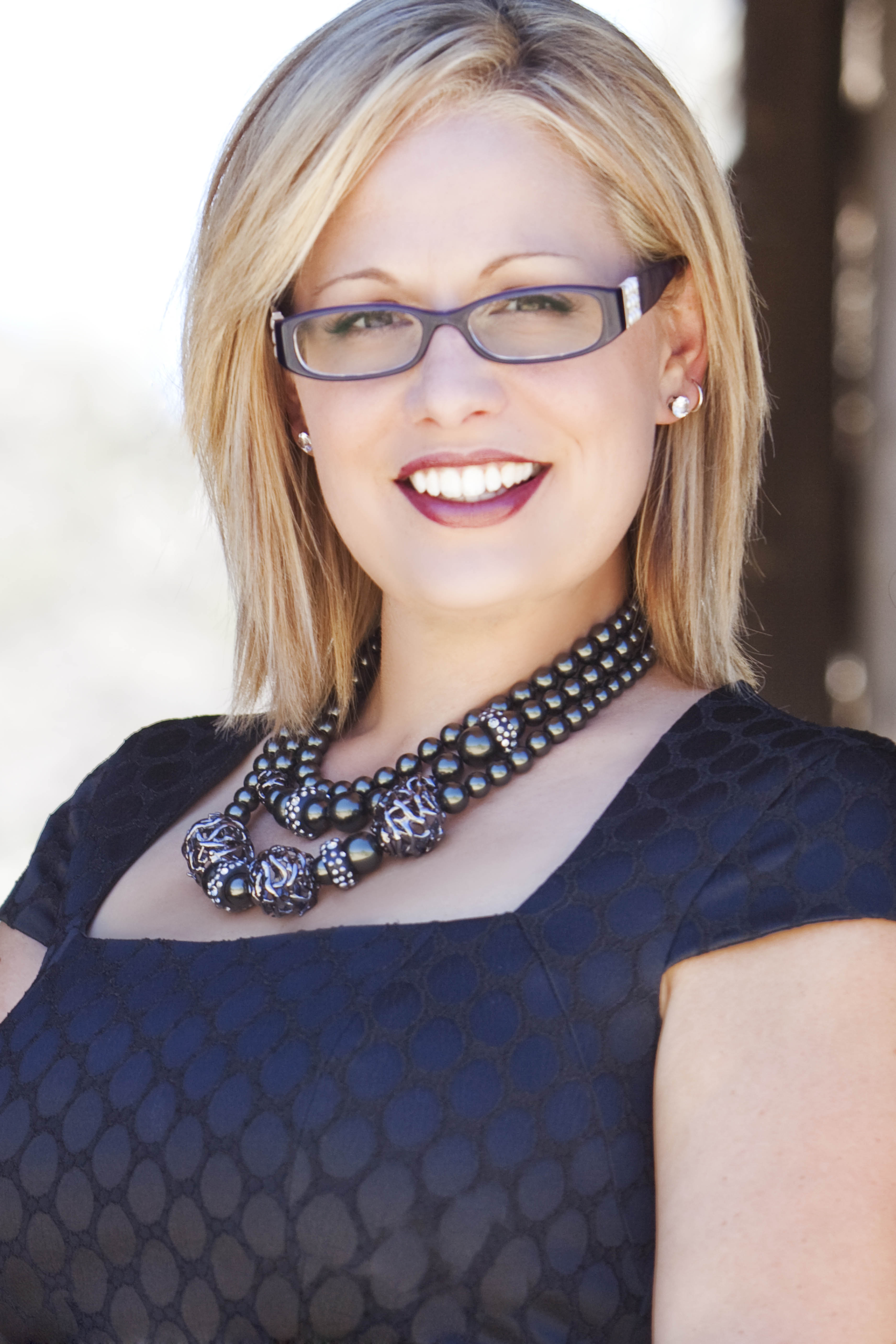 Official portrait of Rep. Kyrsten Sinema of Arizona's 9th district